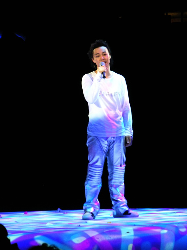 Eason Chan at his Get A Life concert in Hong Kong.